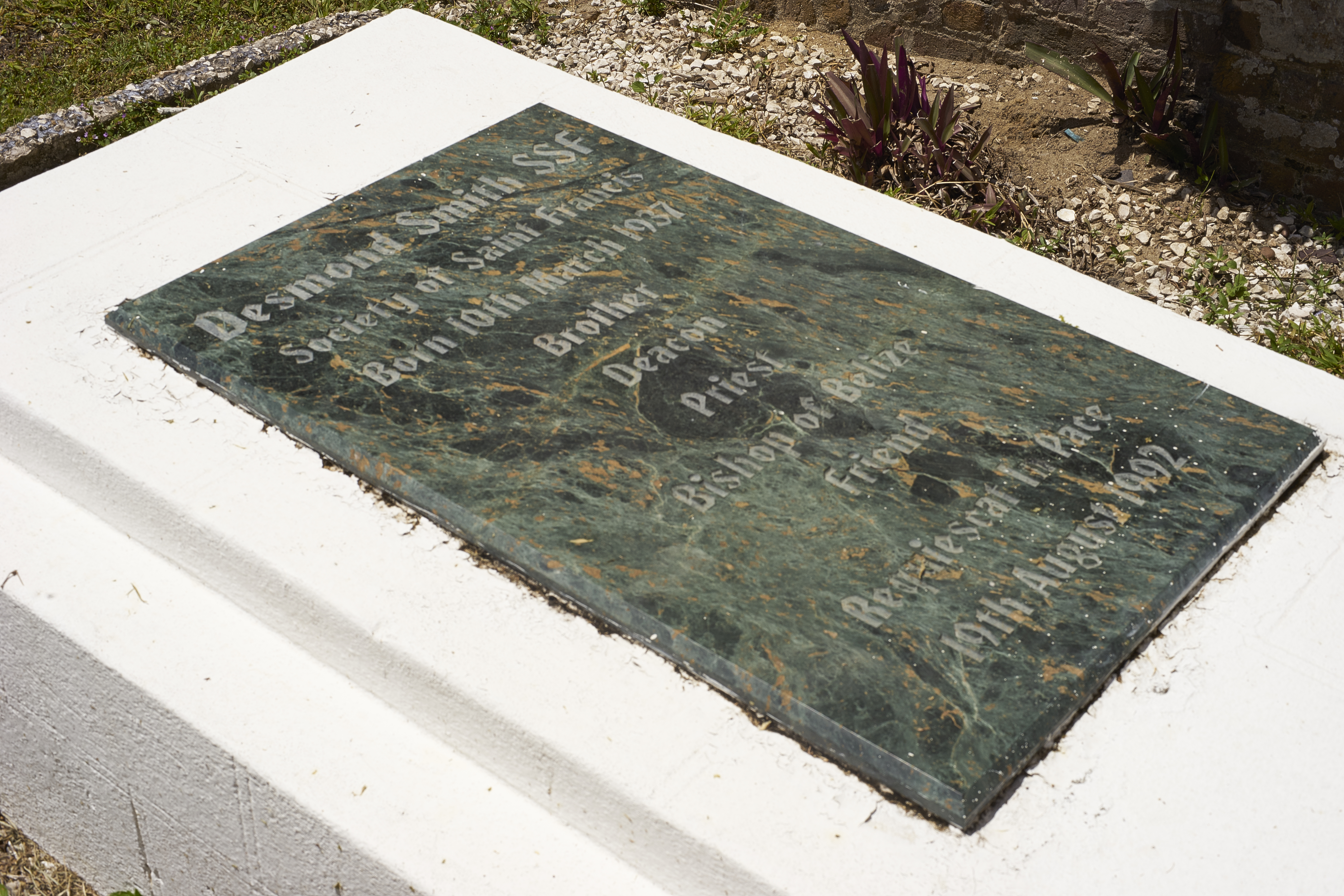 Tombstone Desmond Smith, Bishop of Belize, in the garden of St. John's Cathedral, Belize City